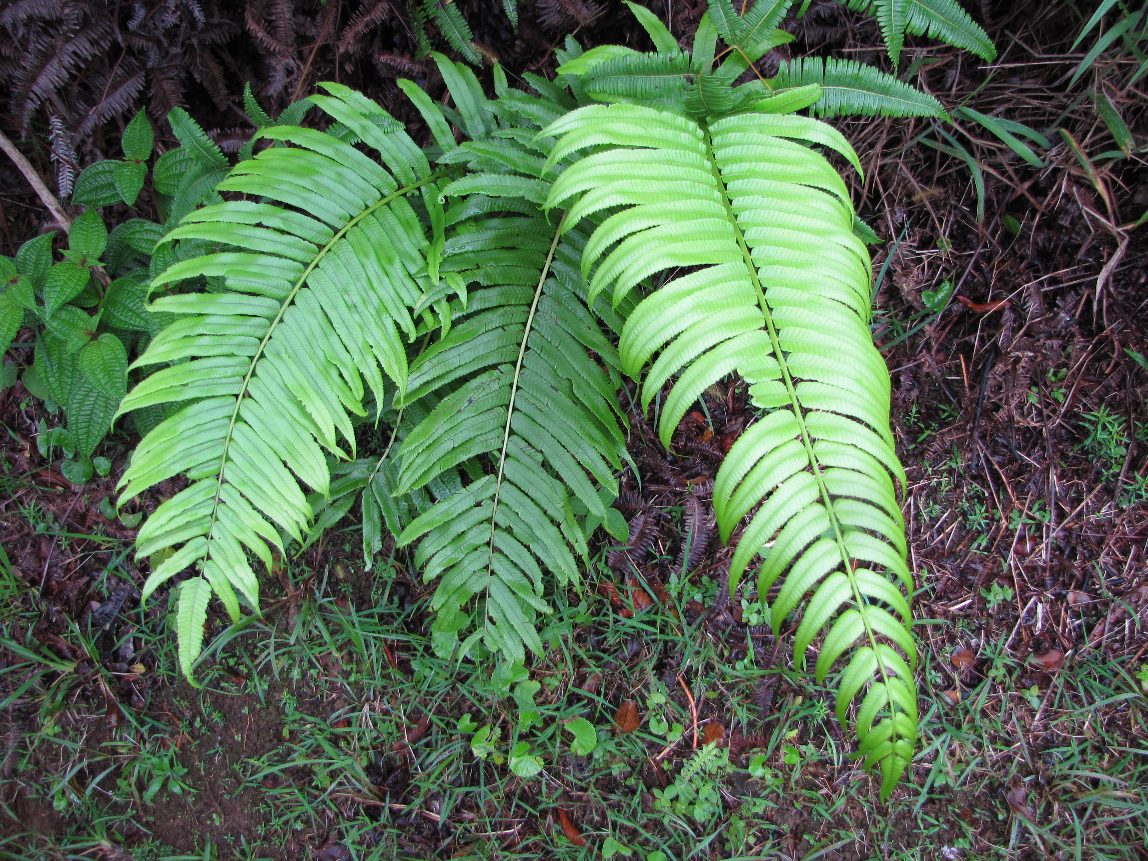 Cyclosorus cyatheoides (Kikawaio) Habit at Waihee Ridge Trail, Maui, Hawaii. August 27, 2011 #110827-8377 Image Use Policy Also known as Christella cyatheoides.